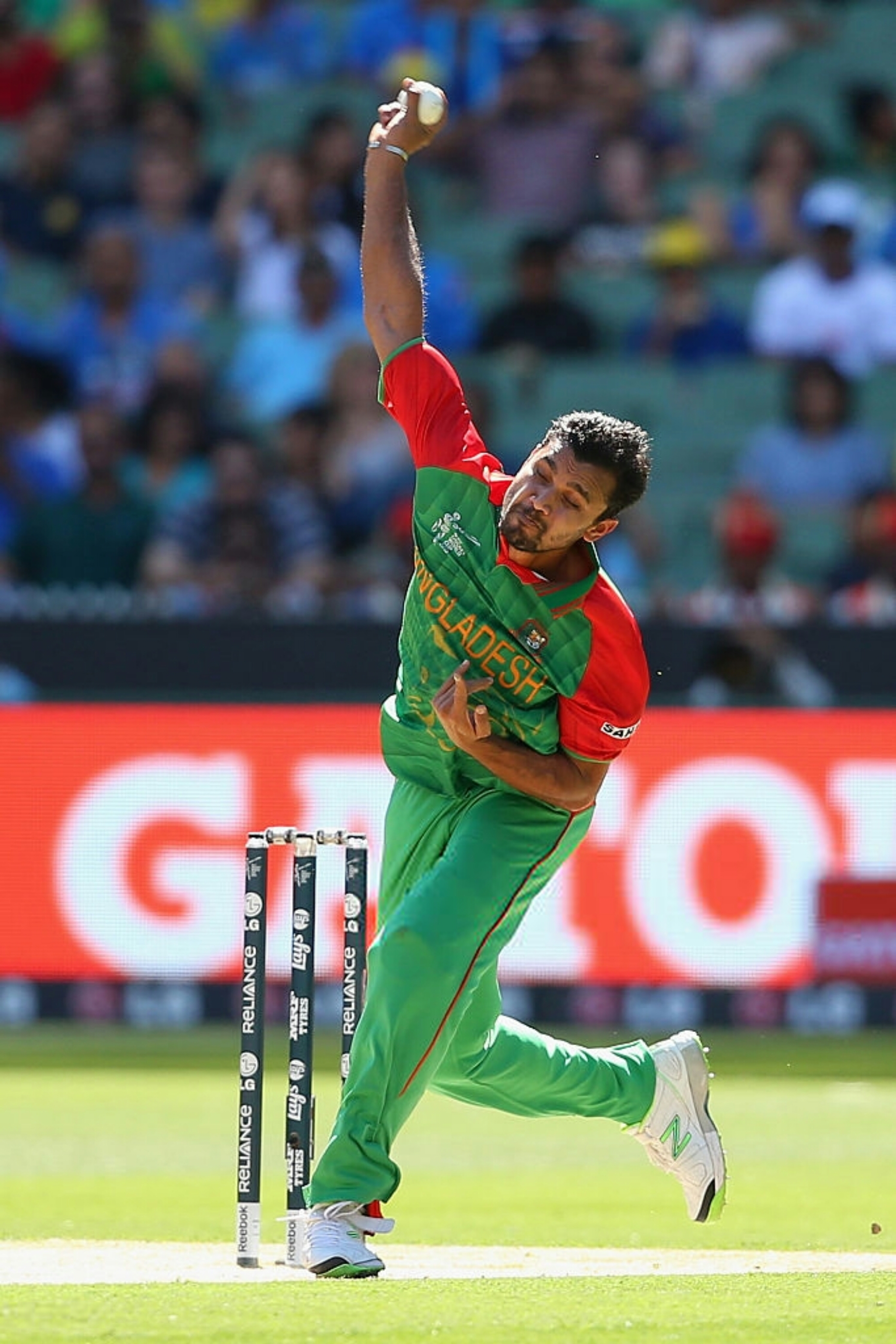 MELBOURNE, AUSTRALIA - MARCH 19: Mashrafe Mortaza of Bangladesh bowls during the 2015 ICC Cricket World Cup match between India and Bangldesh at Melbourne Cricket Ground on March 19, 2015 in Melbourne, Australia. (Photo by Quinn Rooney/Getty Images)